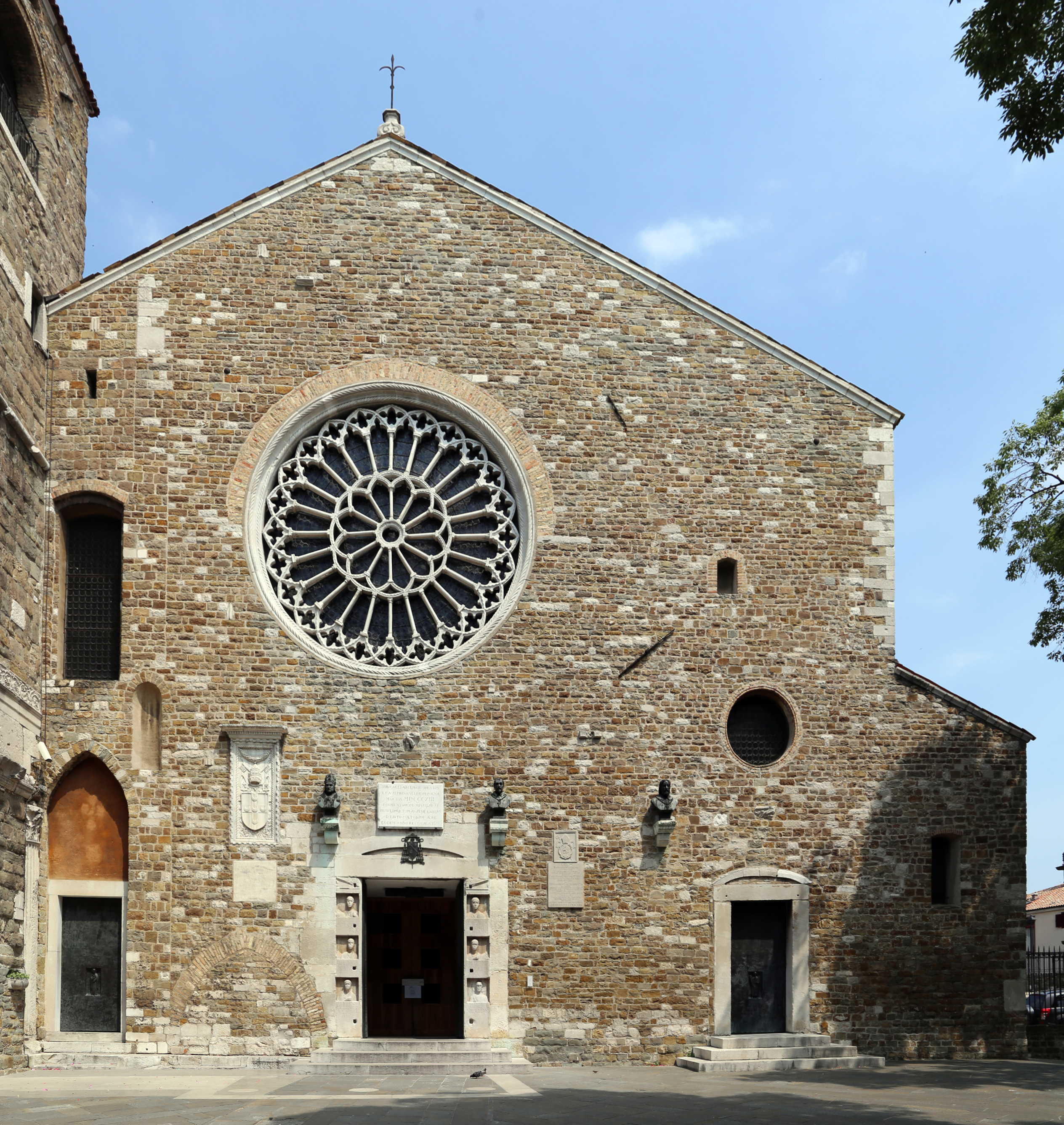 Cathedral (Trieste) - Facade